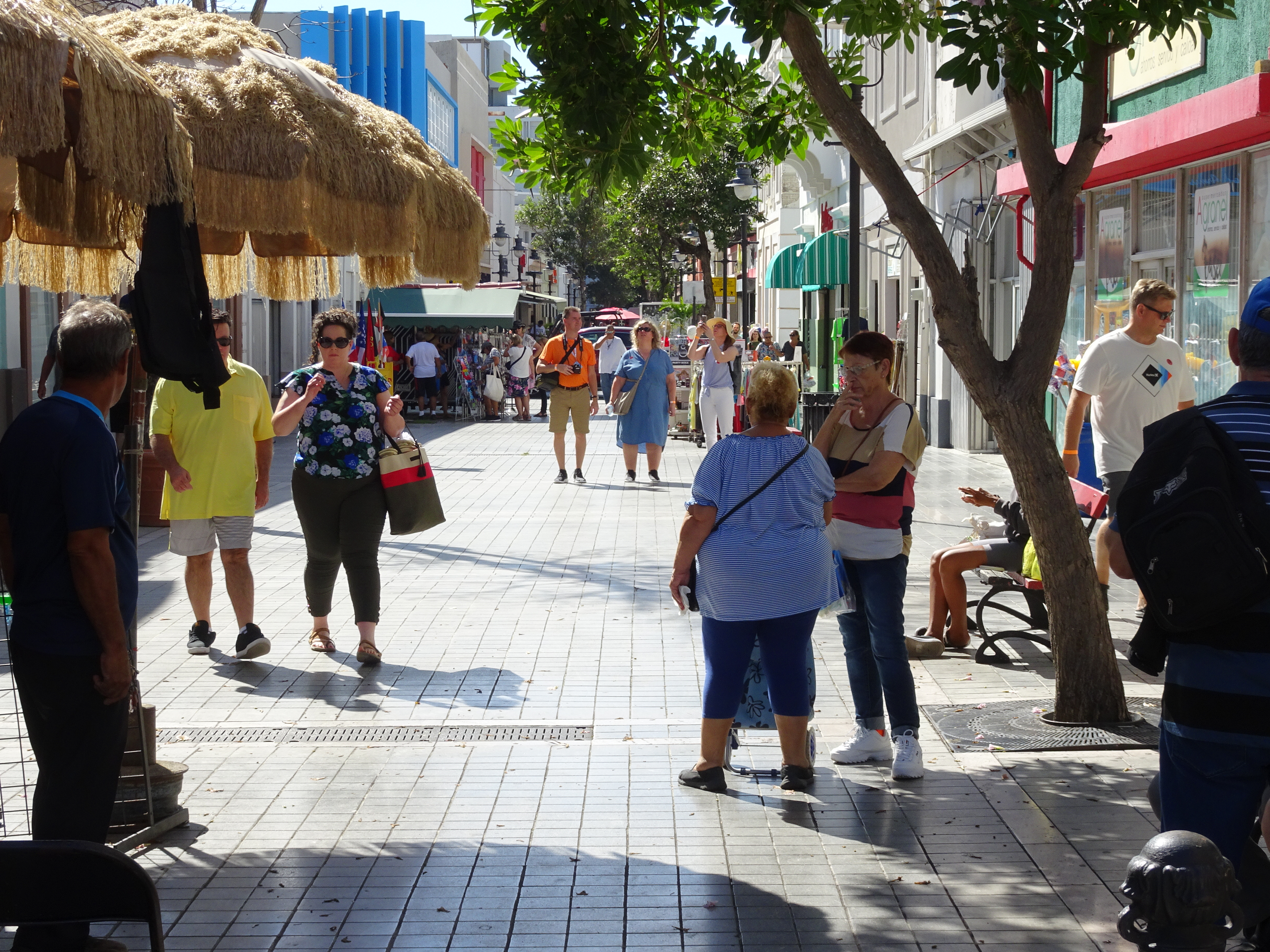 Paseo Atocha, Bo. Quinto, Ponce, Puerto Rico, visto desde la Calle Vives, mirando al sur (DSC03207)